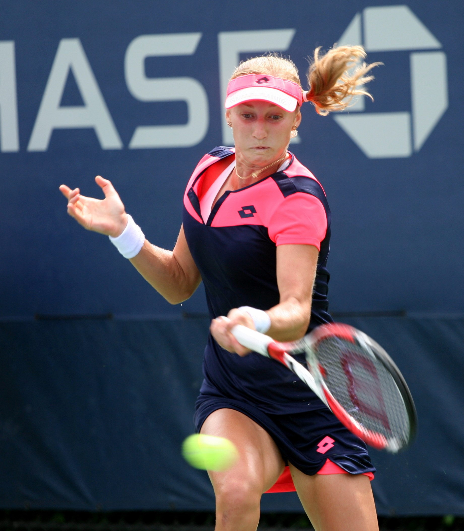 Thursday, August 29